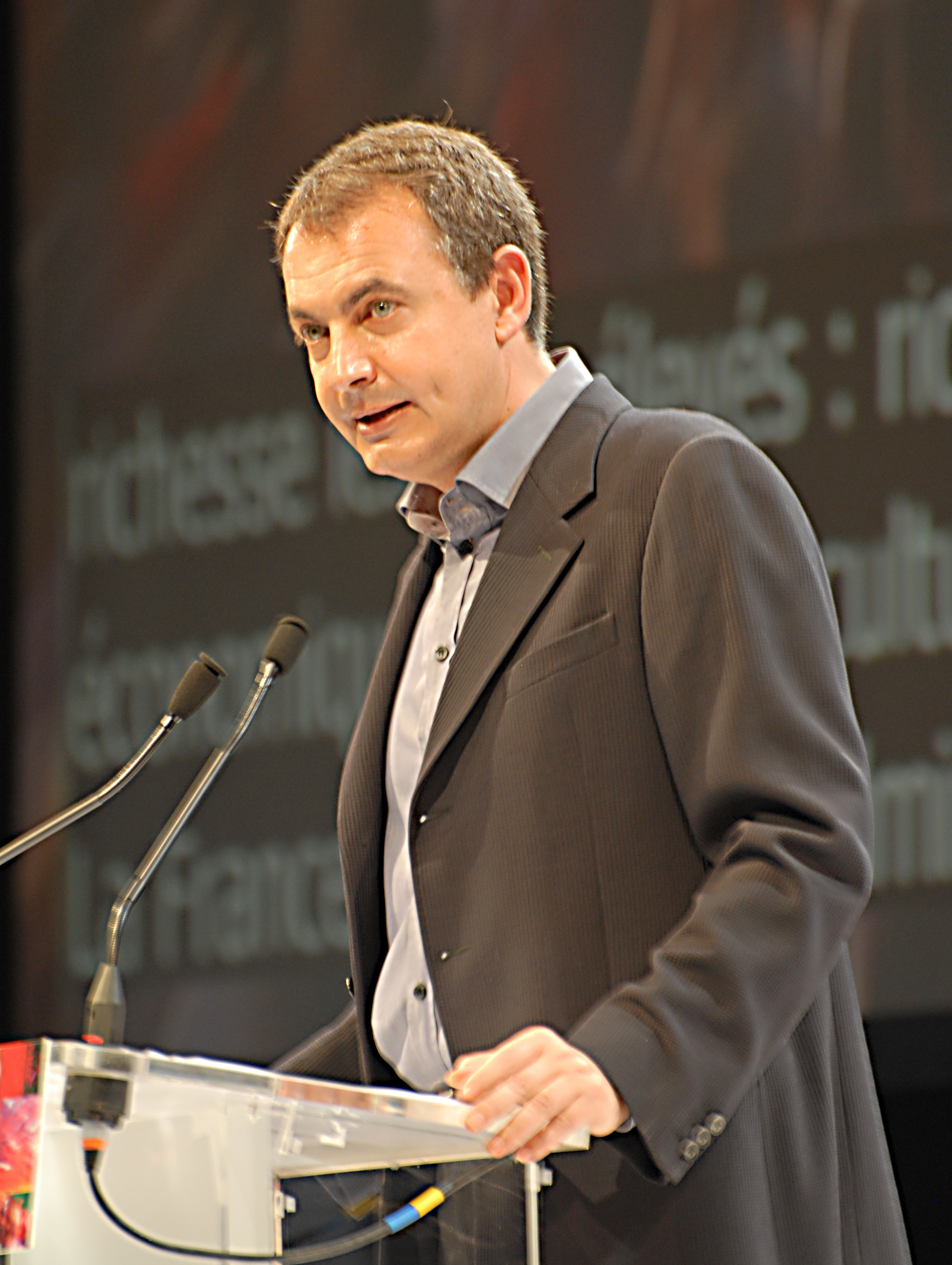 José Luis Rodríguez Zapatero during his meeting in Toulouse on April, 19th 2007 for the 2007 presidential election.